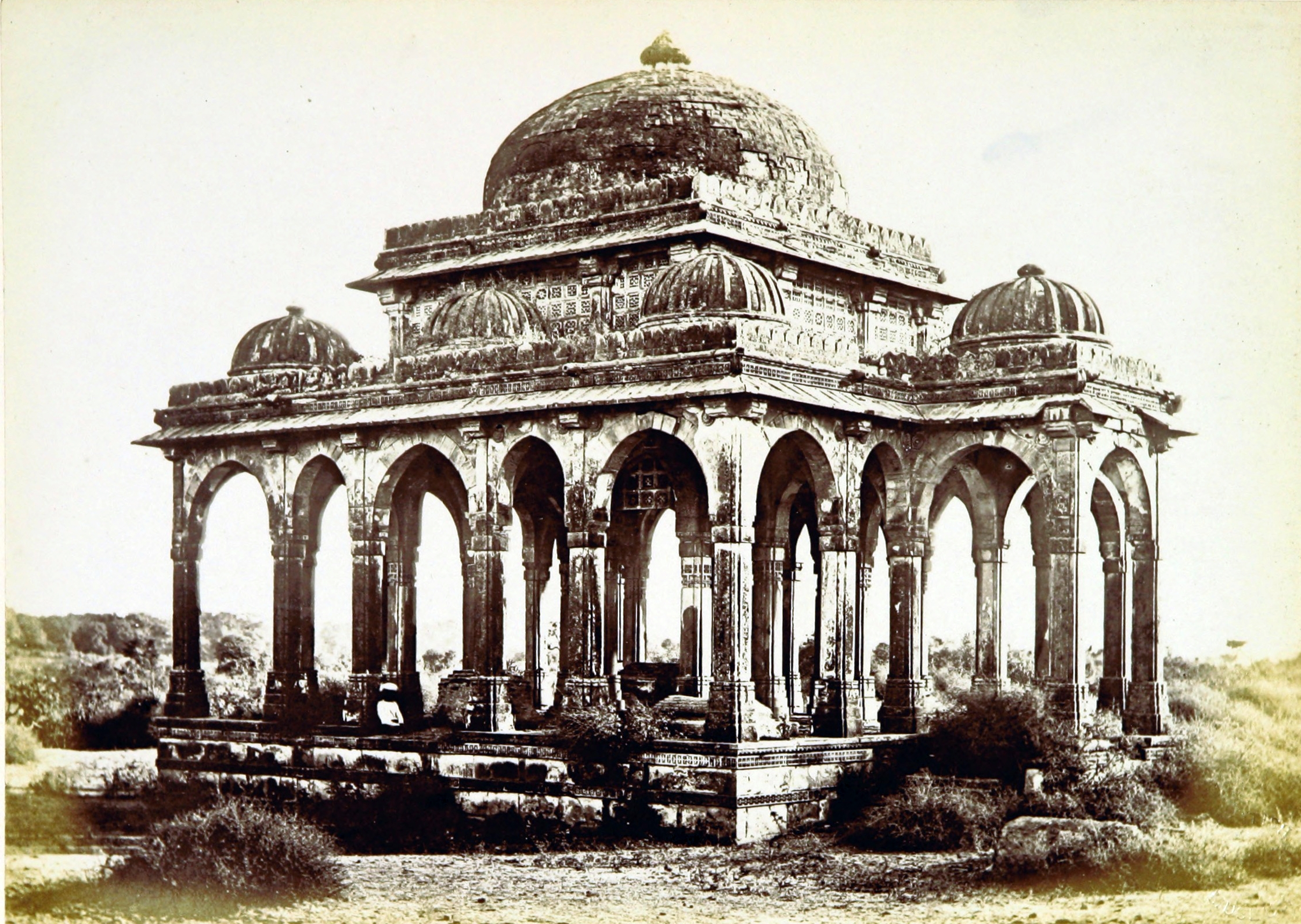 Image taken from: Title: "Architecture at Ahmedabad, the Capital of Goozerat, photographed by Colonel Biggs, ... With an historical and descriptive sketch, by T. C. H., ... and architectural notes by J. Fergusson, etc" Author: HOPE, Theodore Cracraft - Sir, K.C.S.I Contributor: BIGGS, Thomas. Contributor: FERGUSSON, James - Architect Shelfmark: "British Library HMNTS 10057.f.17.", "British Library OC V 6665" Page: 349 Place of Publishing: London Date of Publishing: 1866 Issuance: monographic Identifier: 001730119 Note: The colours, contrast and appearance of these illustrations are unlikely to be true to life. They are derived from scanned images that have been enhanced for machine interpretation and have been altered from their originals. If you wish to purchase a high quality copy of the page that this image is drawn from, please order it here. Please note that you will need to enter details from the above list - such as the shelfmark, the page, the book's volume and so on - when filling out your order. Following this or the link above will take you to the British Library's integrated catalogue. You will be able to download a PDF of the book this image is taken from, as well as view the pages up close with the 'itemViewer'. Click on the 'related items' to search for the electronic version of this work. Click here to see all the illustrations in this book and click here to browse other illustrations published in books in the same year. Please click on the tags shown on the right-hand side for other ways to browse the illustrations.